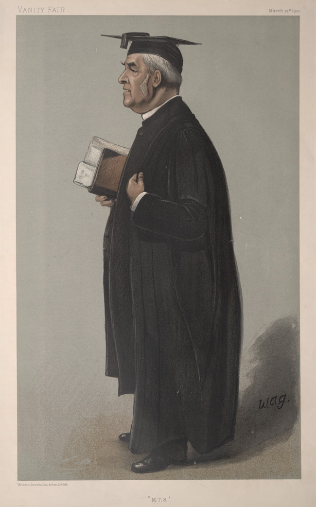 Men of the Day No.804: Caricature of The Rev William Baker DD (1841-1910). Head Master of Merchant Taylor's (1870-1900). Born in Reigate in 1841 and educated at MTS and St. John's College, Oxford. Caption reads: "M.T.S."